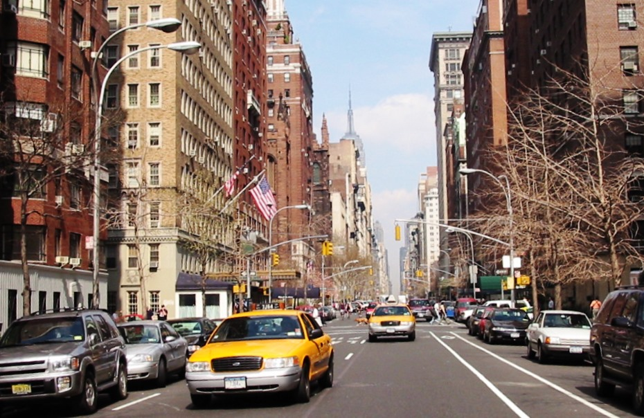 Fifth Avenue in New York City (taken at Washington Square Park).